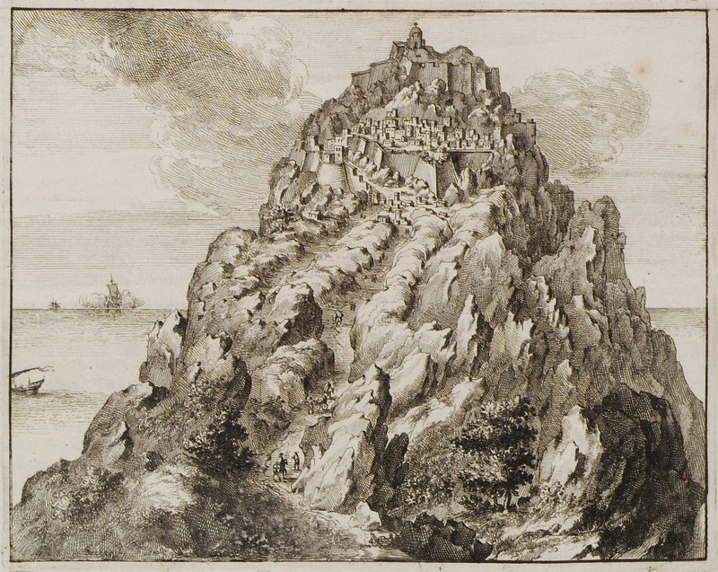 Olfert Dapper, Naukeurige Beschryving der Eilanden in de Archipel der Middelantsche Zee, Cyprus, Rhodes, Kandien, Samos, Scio, Negroponte, Lemnos, Paros, Delos, Patmos, en andere, in groten getale, Amsterdam, Wolfgangh, 1688